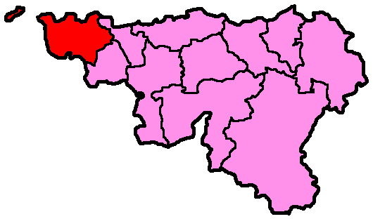 Location of the constituency of Tournai-Ath-Mouscron in Wallonia